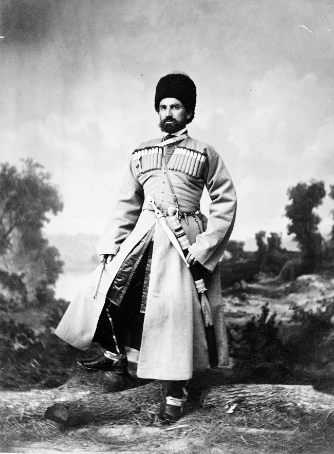 Constantinople. Circassian.